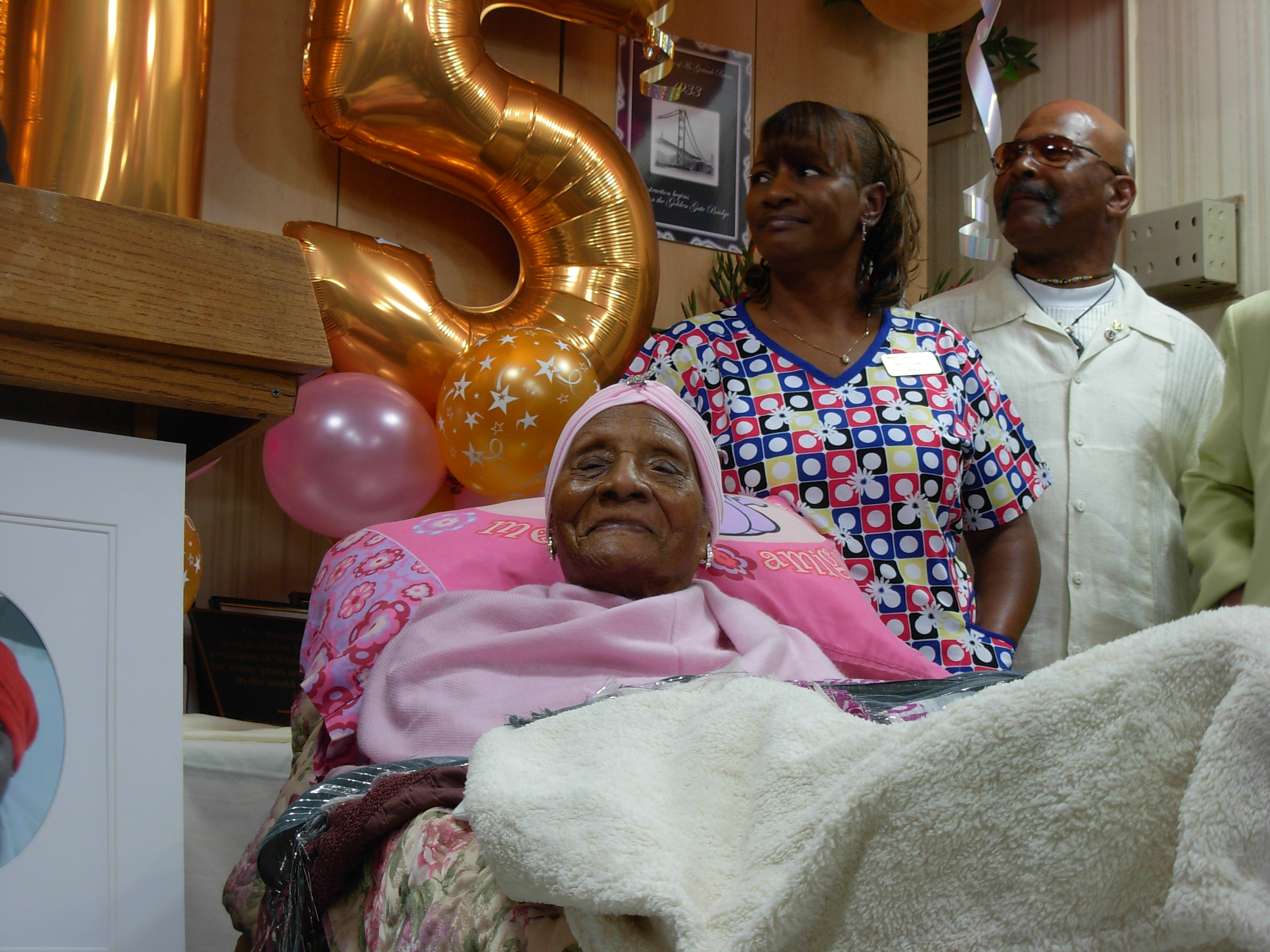 Gertrude Baines, the world's oldest person, and caretakers, at her 115th birthday party at the convalescent center at which she lives in the West Adams neighborhood of Los Angeles. Photo taken April 6, 2009 by John Rabe.